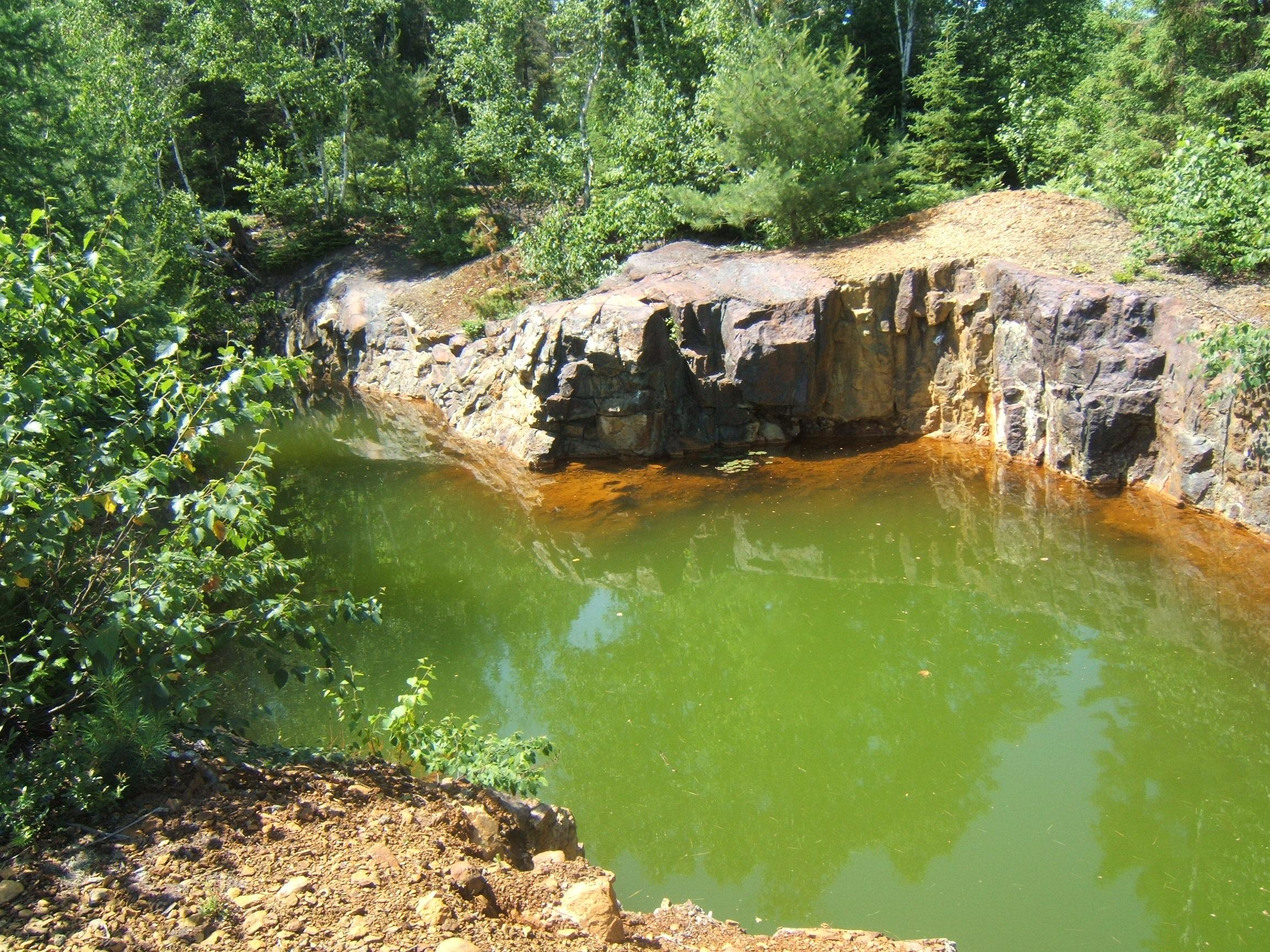 Open-cut at the Northland Mine in Temagami, Ontario.